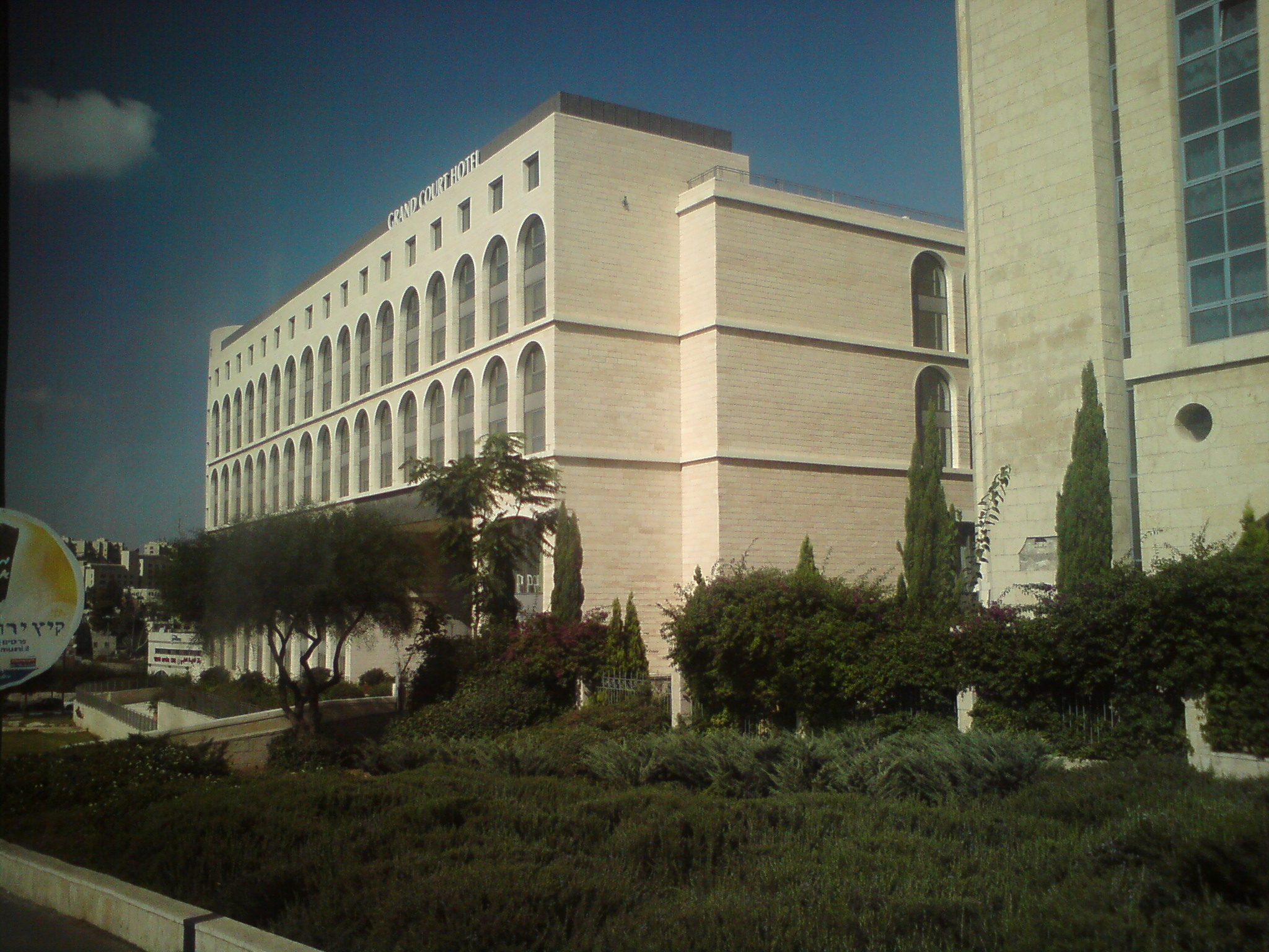 "Grand Court" hotel - Jerusalem. Israel